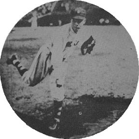 Hitoshi Saigo